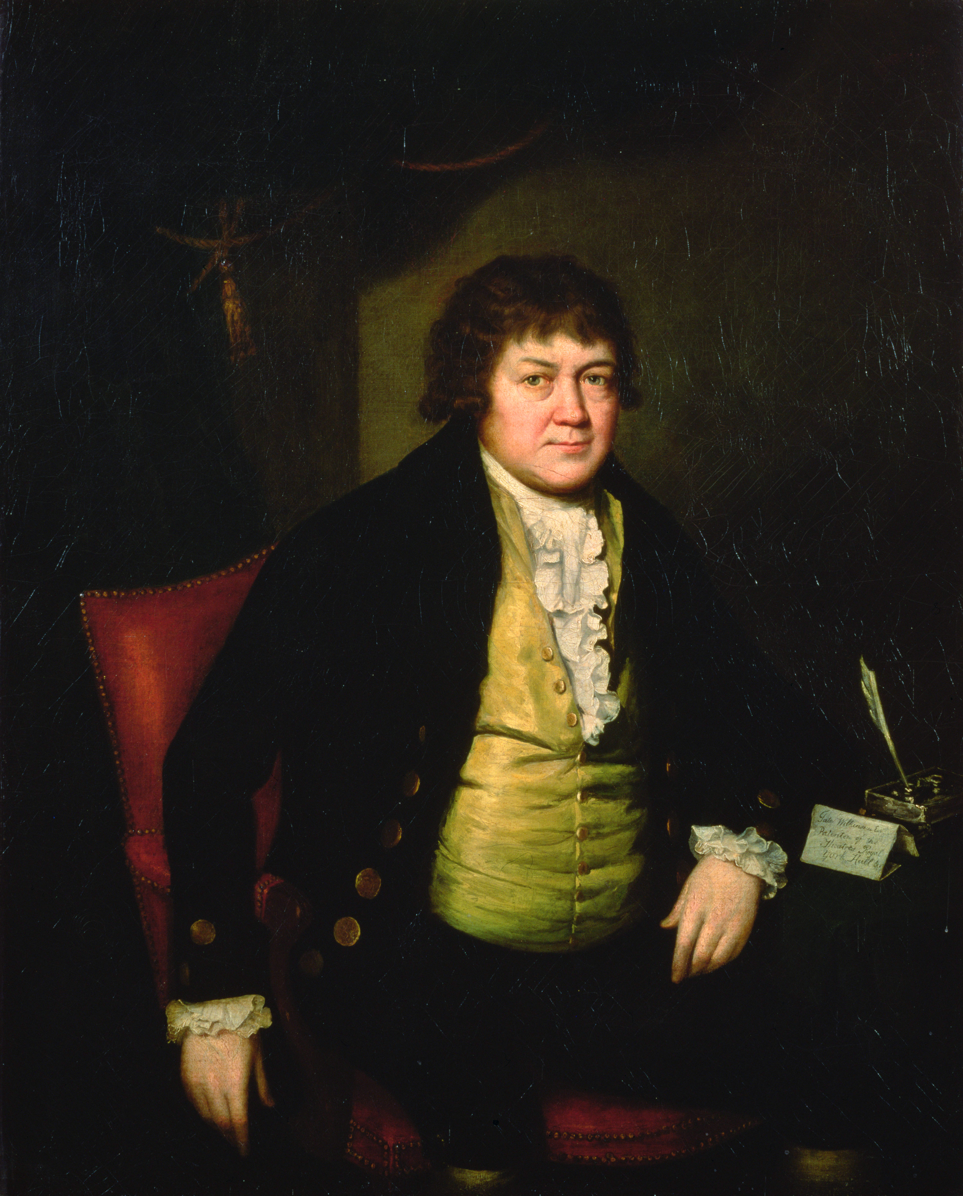 Three-quarter length figure seated in a red chair, turning half right; his right arm rests over the chair and his left arm rests on a table with inkstand, quill and paper. He wears a yellow waistcoat, white stock and blue coat.